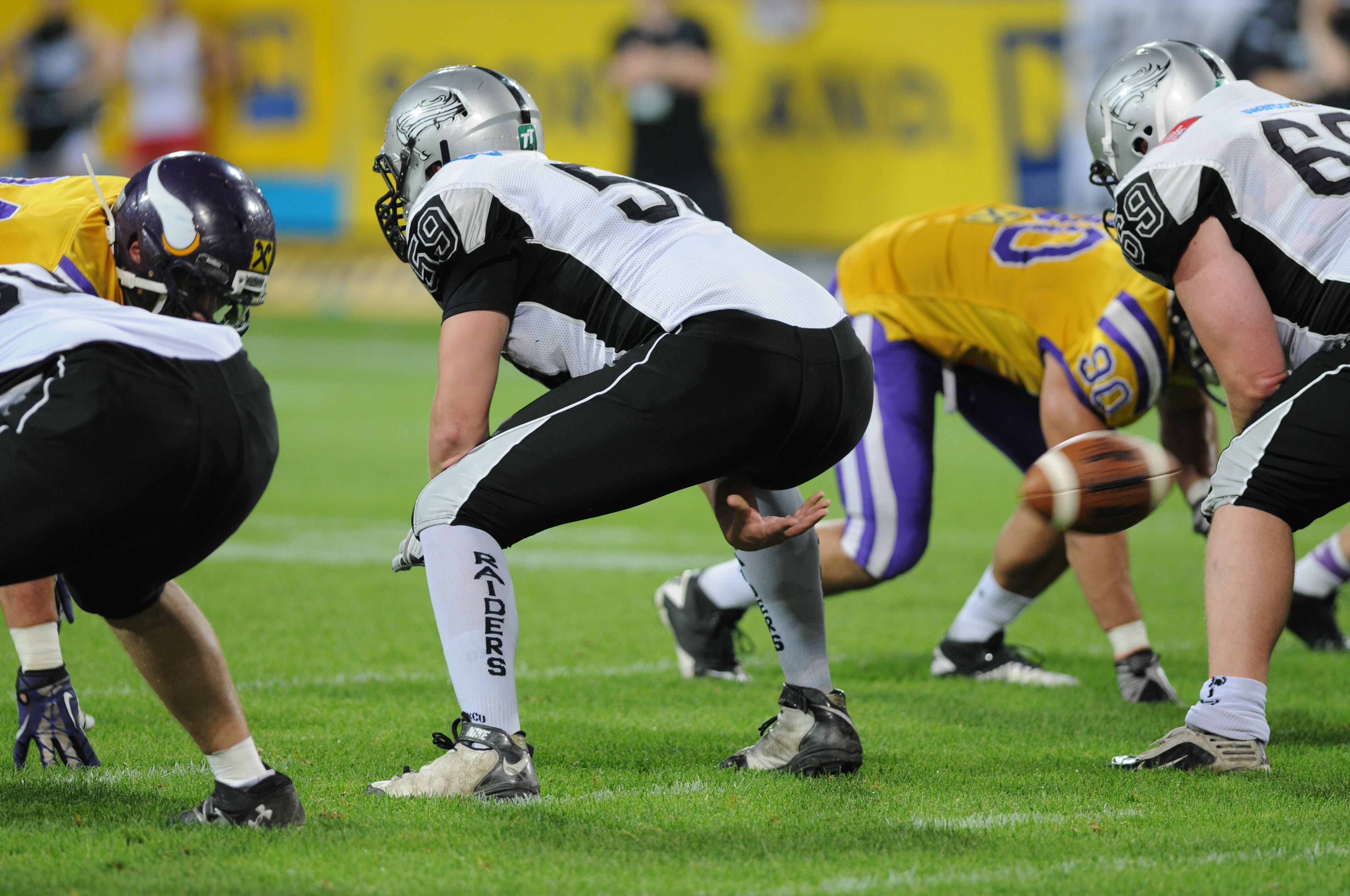 Matthias Lochs performing a snap at Austrian Bowl XXIX at NV Arena in St. Pölten